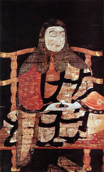 portret saicho